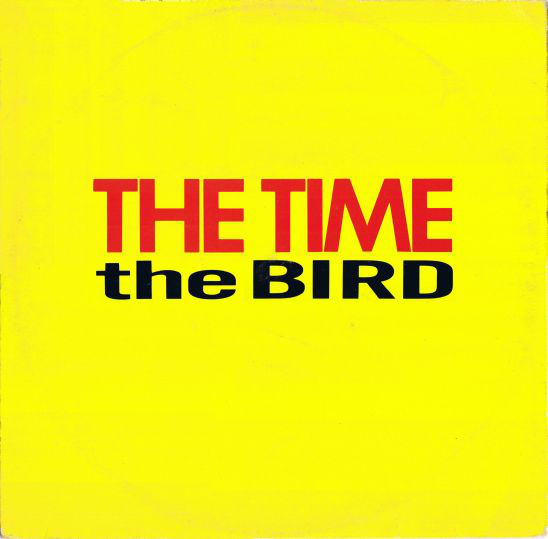 Cover of the single "The Bird" by The Time.